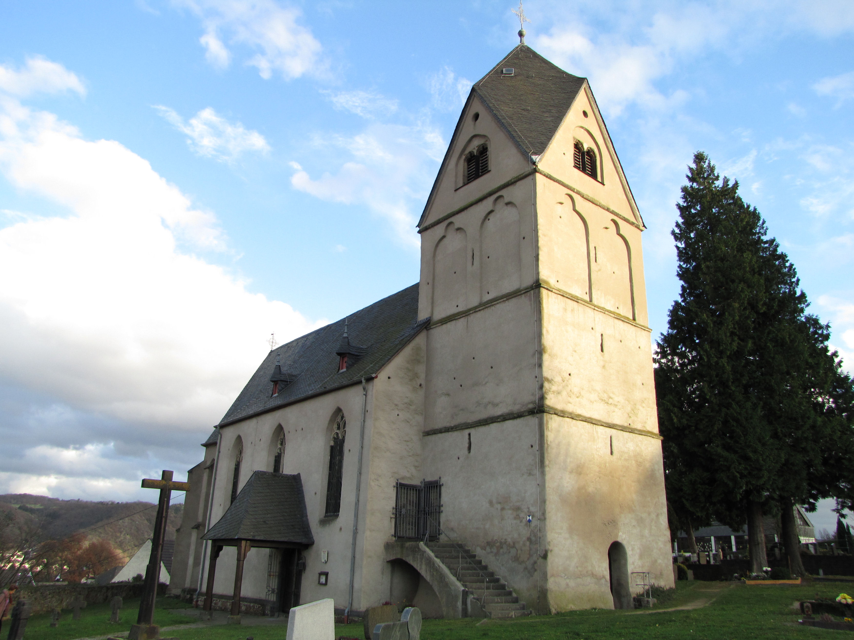 St. Dionysius in Rhens